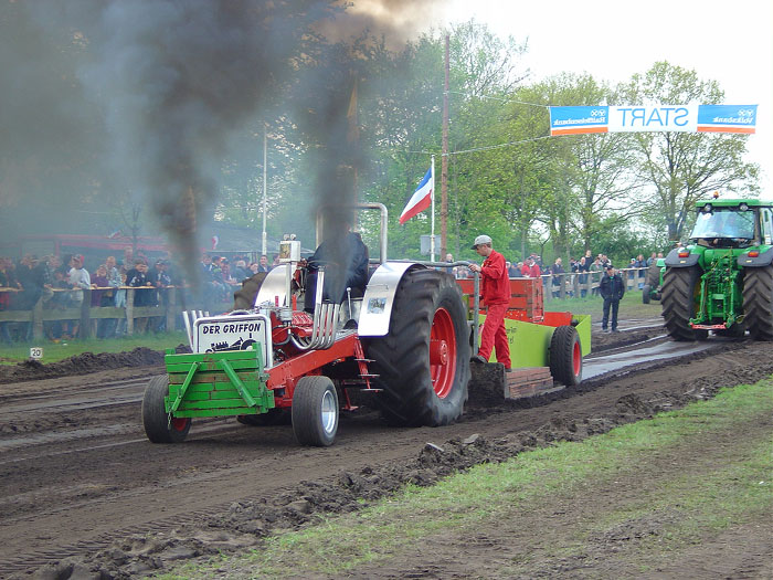 A small free class tractor from the regional championship in Schlewswig Holstein.